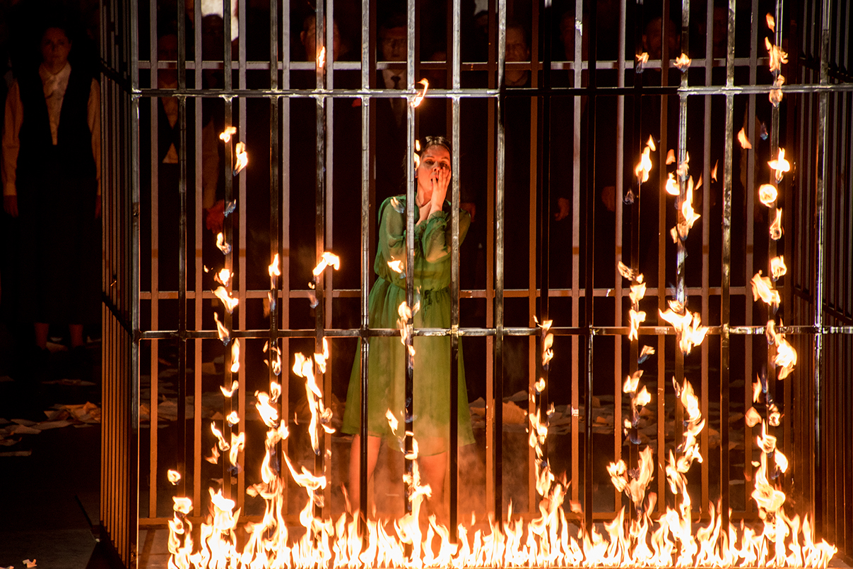 Opera "La Juive" by Eugène Scribe and Jacques Fromental Halévy, new production at Bayerische Staatsoper (Bavarian State Opera) in Munich, June 2016, directed by Calixto Bieito, sets by Rebecca Ringst, costumes by Ingo Krügler, video design by Sarah Derendinger, light design by Michael Bauer, conducted by Bertrand de Billy - with Aleksandra Kurzak (Rachel) in the final scene